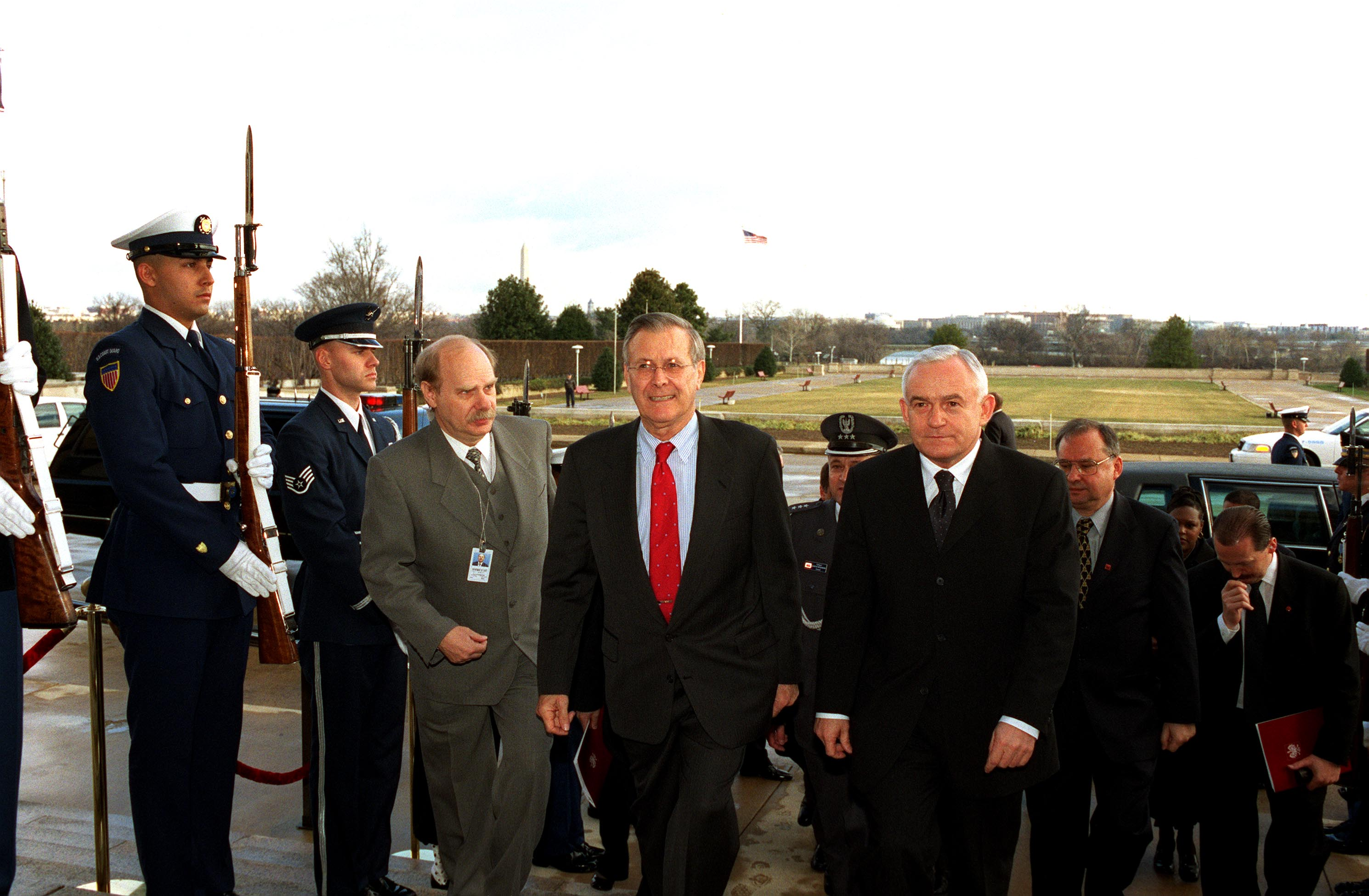 Secretary of Defense Donald H. Rumsfeld (center) escorts Prime Minister Leszek Miller (right), of Poland, into the Pentagon on Jan. 11, 2002. The two leaders will meet to discuss defense issues of mutual interest.